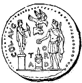 738 woodcuts illustrating the work A Dictionary of Roman Coins, Republican and Imperial (1889). To identify a coin please look at the filename to identify a page number, and check the Dictionary on numiswiki